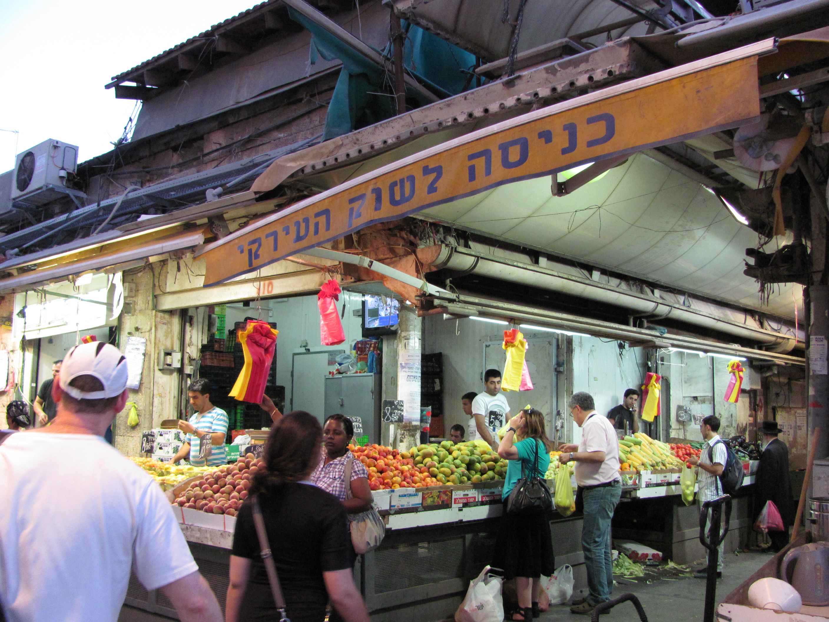 Entrance to the Iraqi Market (shuk) at the Mahane Yehuda open-air marketplace in Jerusalem; the overhead banner says "Entrance to the Iraqi Market".